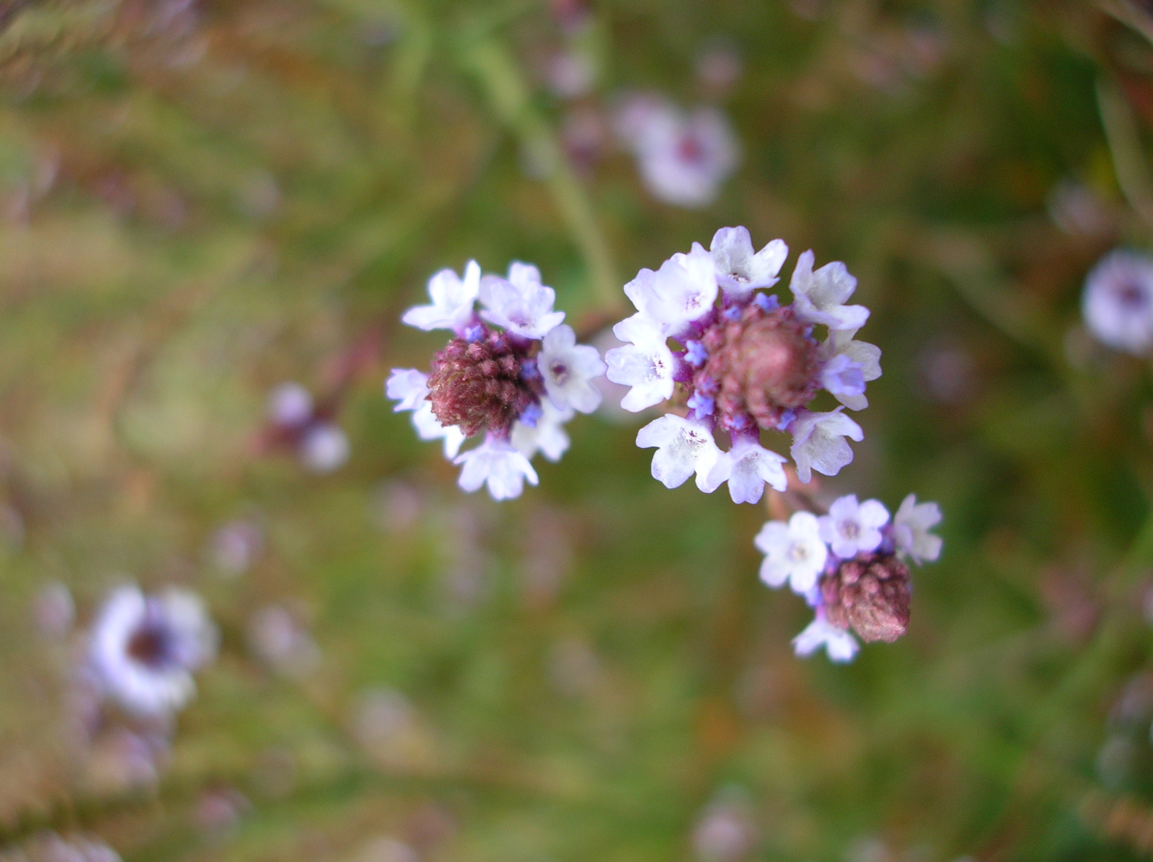 Verbena litoralis (flowers). Location: Maui, Auwahi